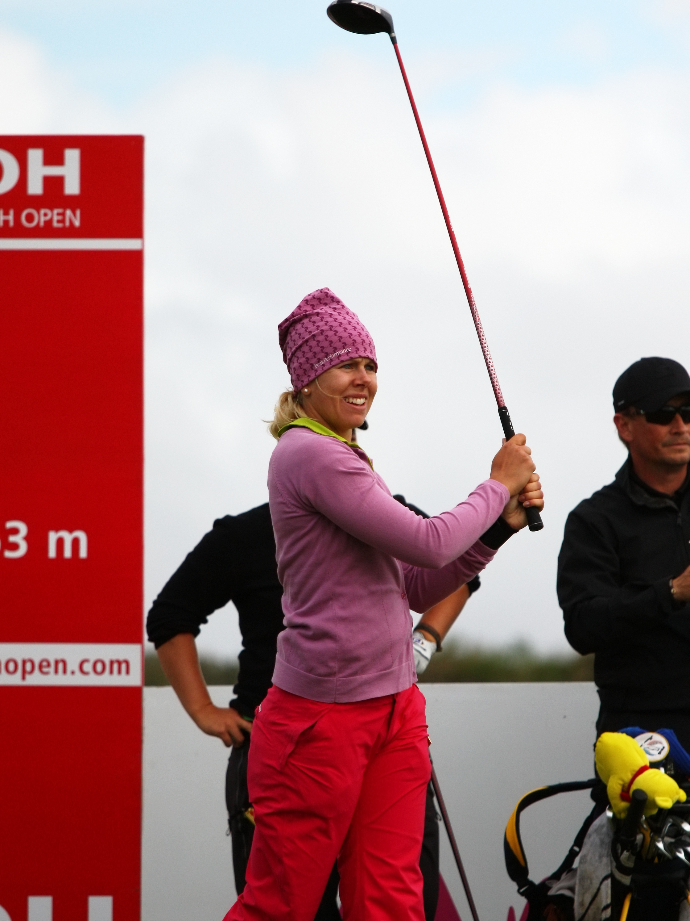 SOUTHPORT, UNITED KINGDOM - JULY 28: Pernilla Lindberg of Sweden watches her drive at the 9th hole during final practice round before 2010 Ricoh Women's British Open held at Royal Birkdale on July 28, 2010 in Southport, England. (Photo by Wojciech Migda)